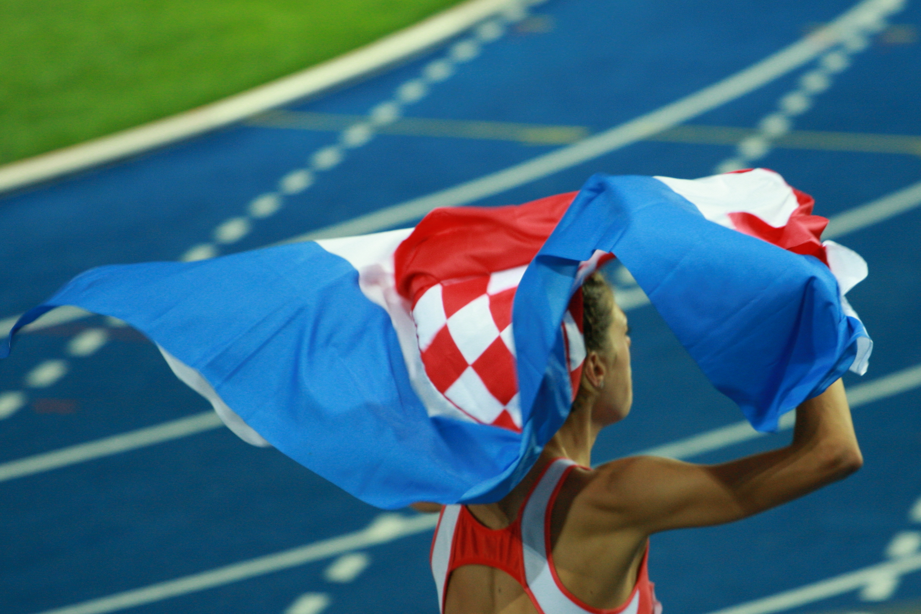 World Champion 2009